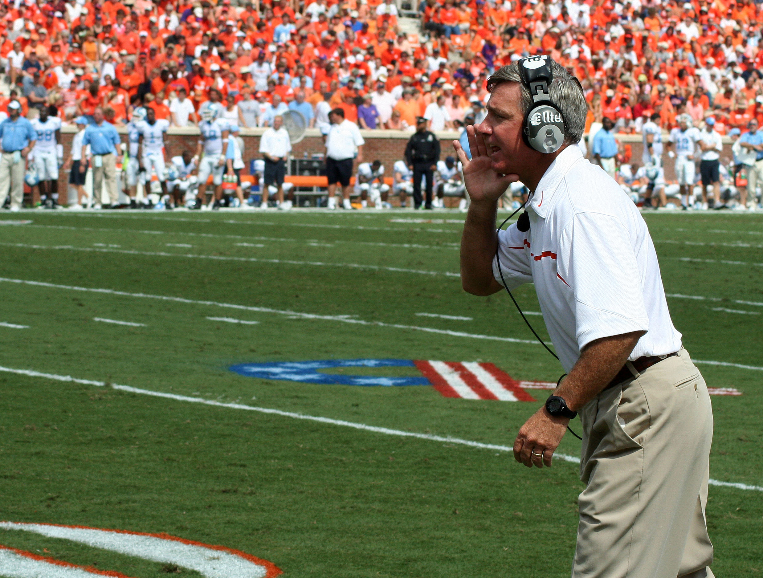 Tommy Bowden, head coach of the Clemson University football team on September 24, 2006 against North Carolina.